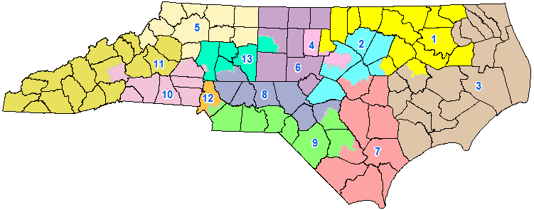 This is the new map of the U.S. House districts in North Carolina for the 2016, 2018, and 2020 elections. The United States District Court for the Middle District of North Carolina forced redistricting after the previous 2012-2014 map was ruled unconstitutional.